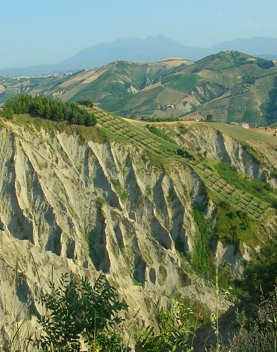 Natural reserve of the Calanchi of Atri, Abruzzo, Italy.